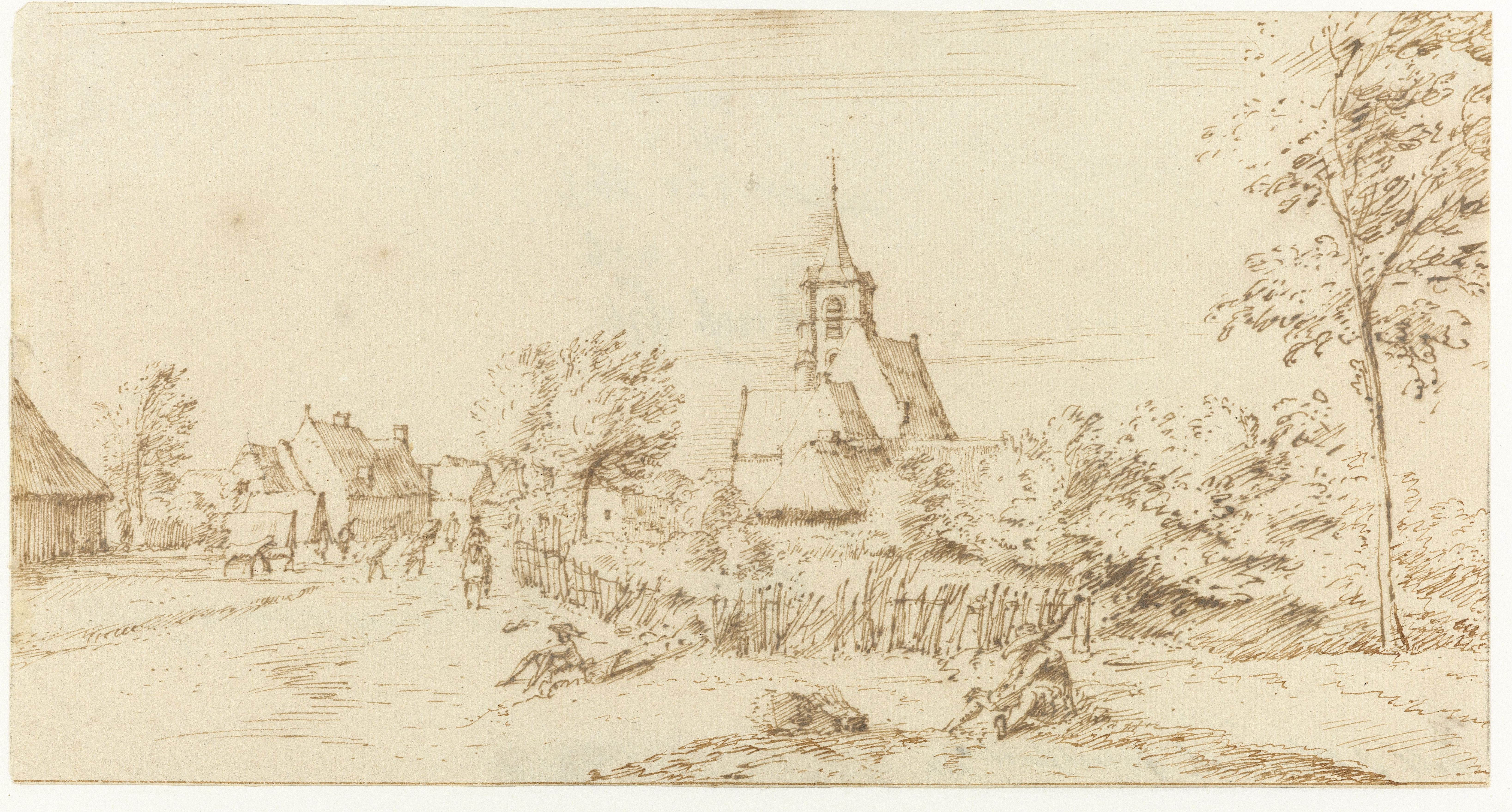 Onnaing drawn by Constantijn Huygens (II) in 1676 (Rijksmuseum)